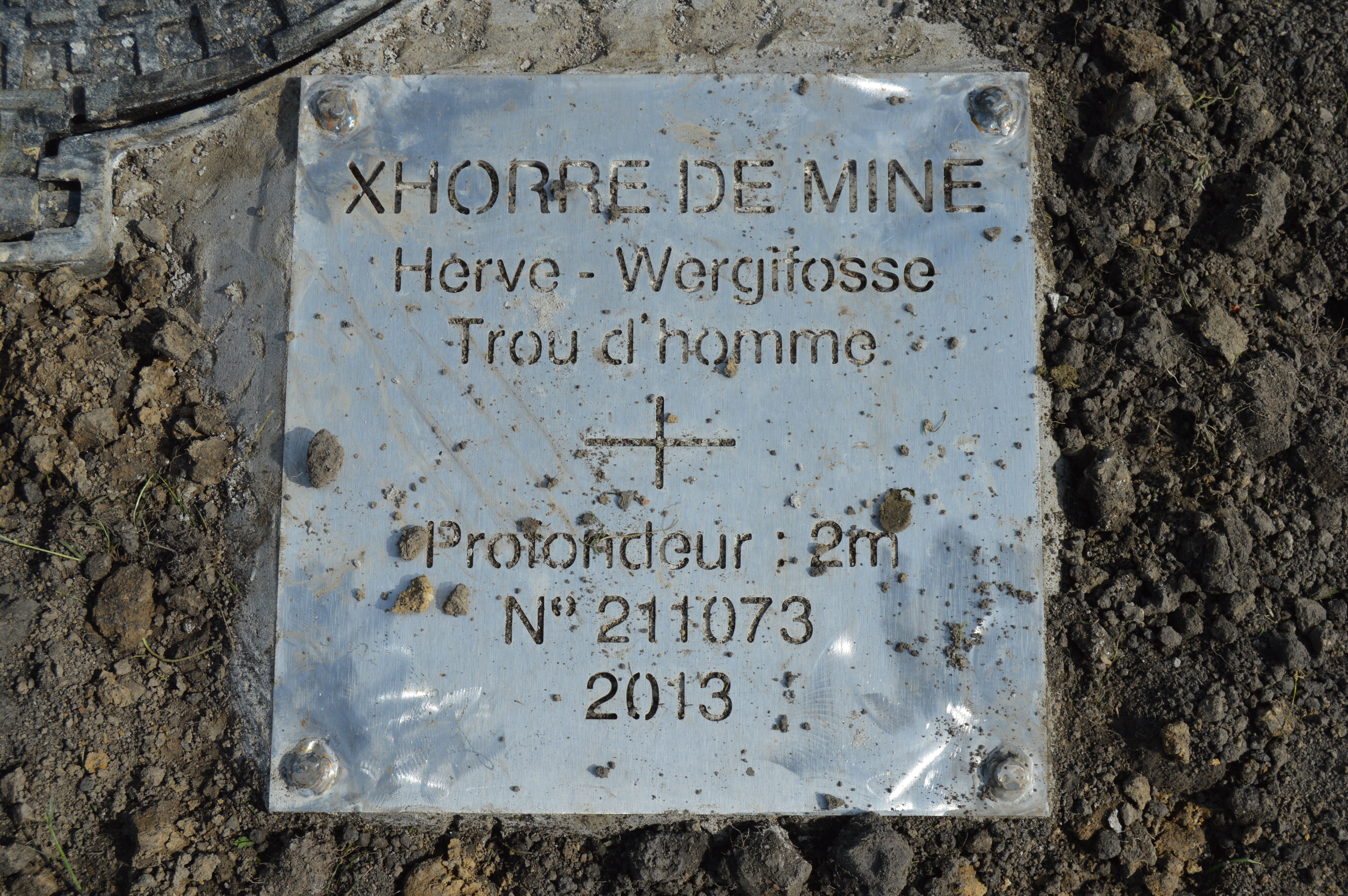 Ancient pit of the Trou d'Homme coal mine in Herve, Belgium